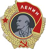 Order of Lenin badge